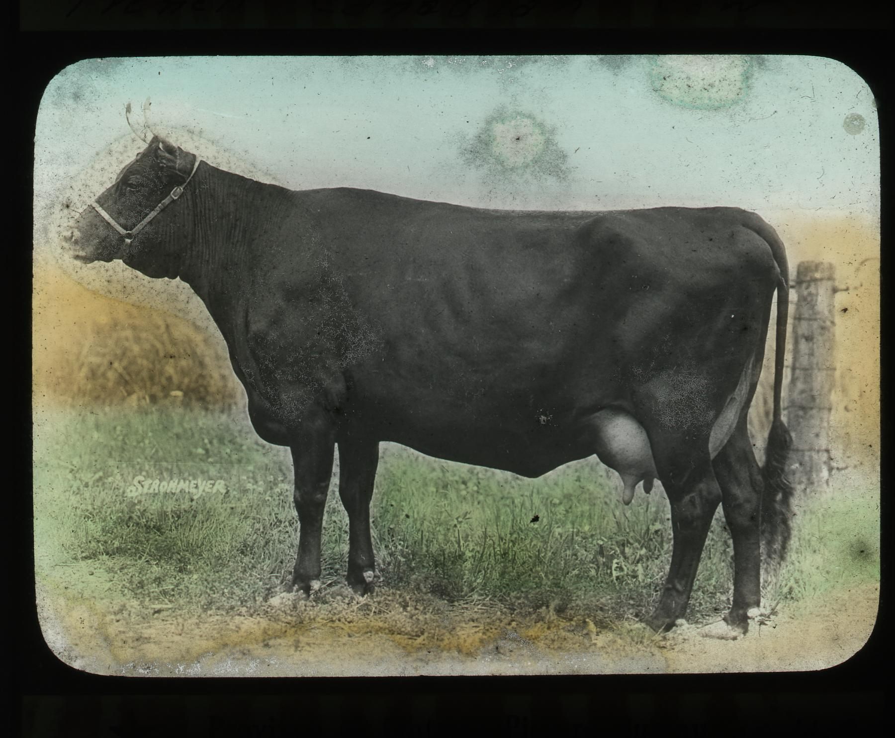 Slide produced by the Province of Ontario Picture Bureau, probably in the 1920s, for use in Ontario schools. Donated to the Community Archives of Belleville and Hastings County by Mike and Sue Mills in October 2015.